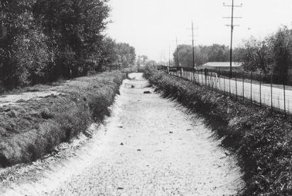 Franklin Canal